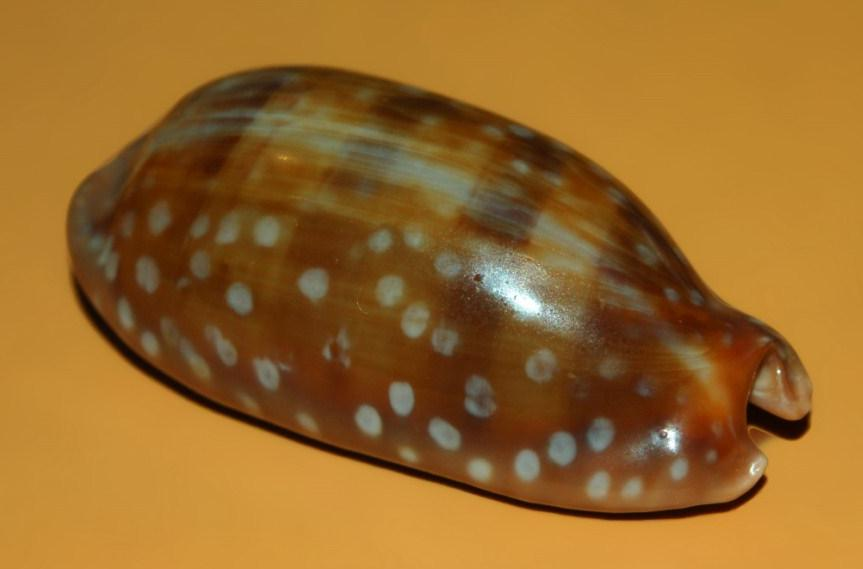 Macrocypraea cervinetta nana